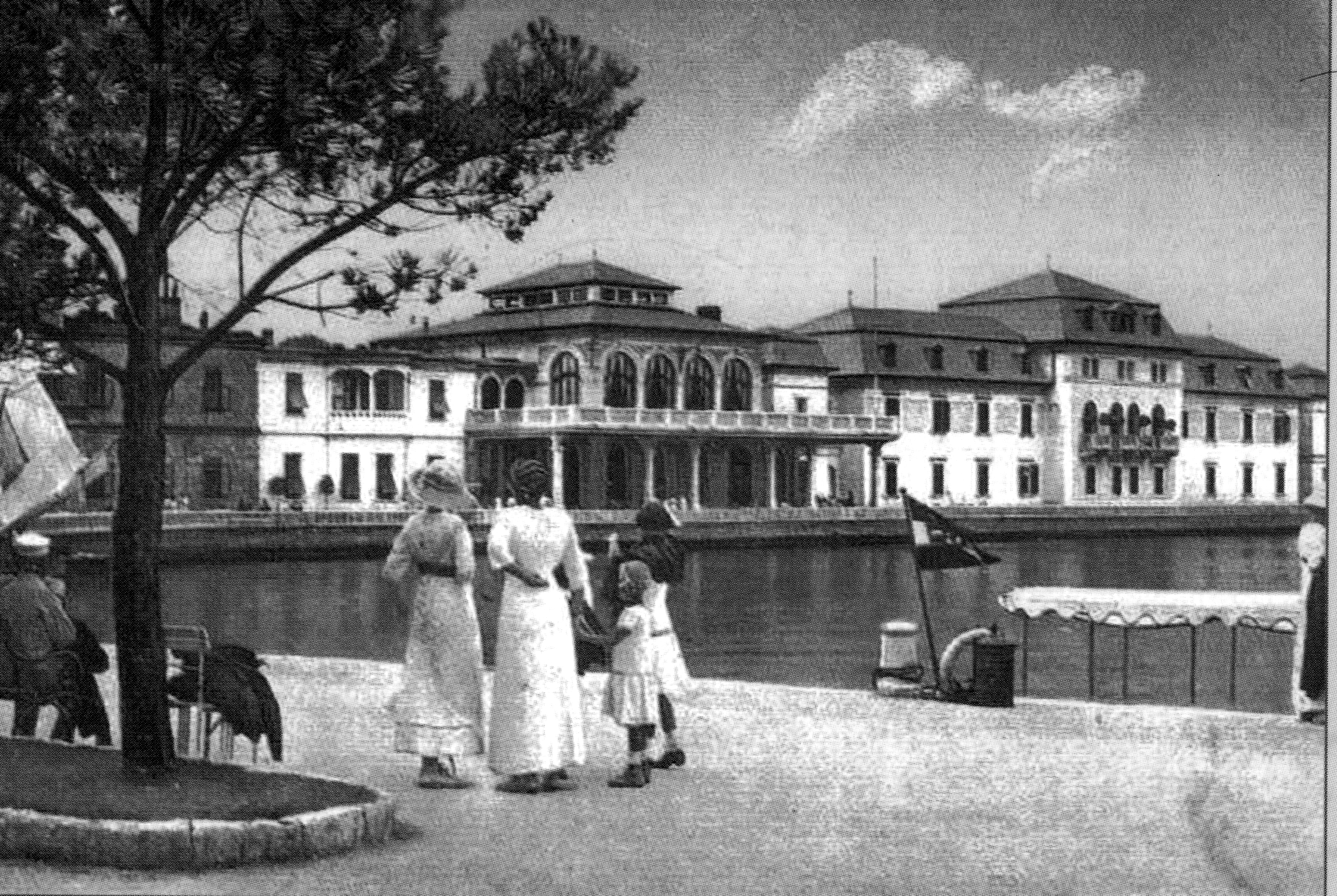 Holiday resort Brioni around turn of the century